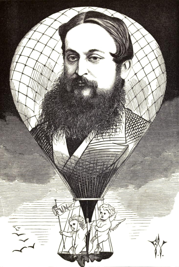 Tom Hood. Joy. from Cartoon portraits and biographical sketches of men of the day